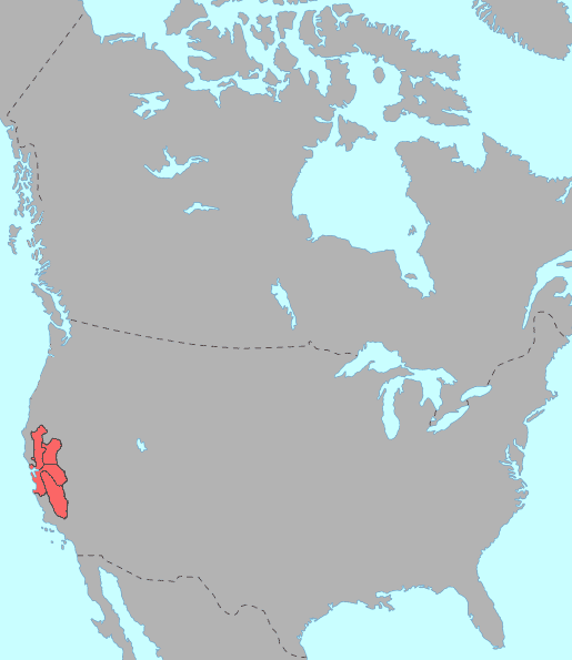 distribution of proposed Californian Penutian languages listed here are: Wintuan Maiduan Utian ( = Miwokan + Costanoan ) Yokutsan Created by User:ish ishwar in 2005, released under CC-by-2.0 Penutià Penuti-Sprachen Penutian languages Lenguas penutíes Fyla penutiańska